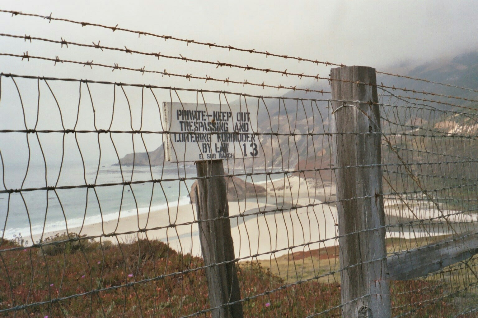 Much of California coast is preserved for public access. When there is private property, it can stick out like a sore thumb, but it isn't all bad. This fence protects a large ranching operation in the Big Sur area. A way of life that is still happening.